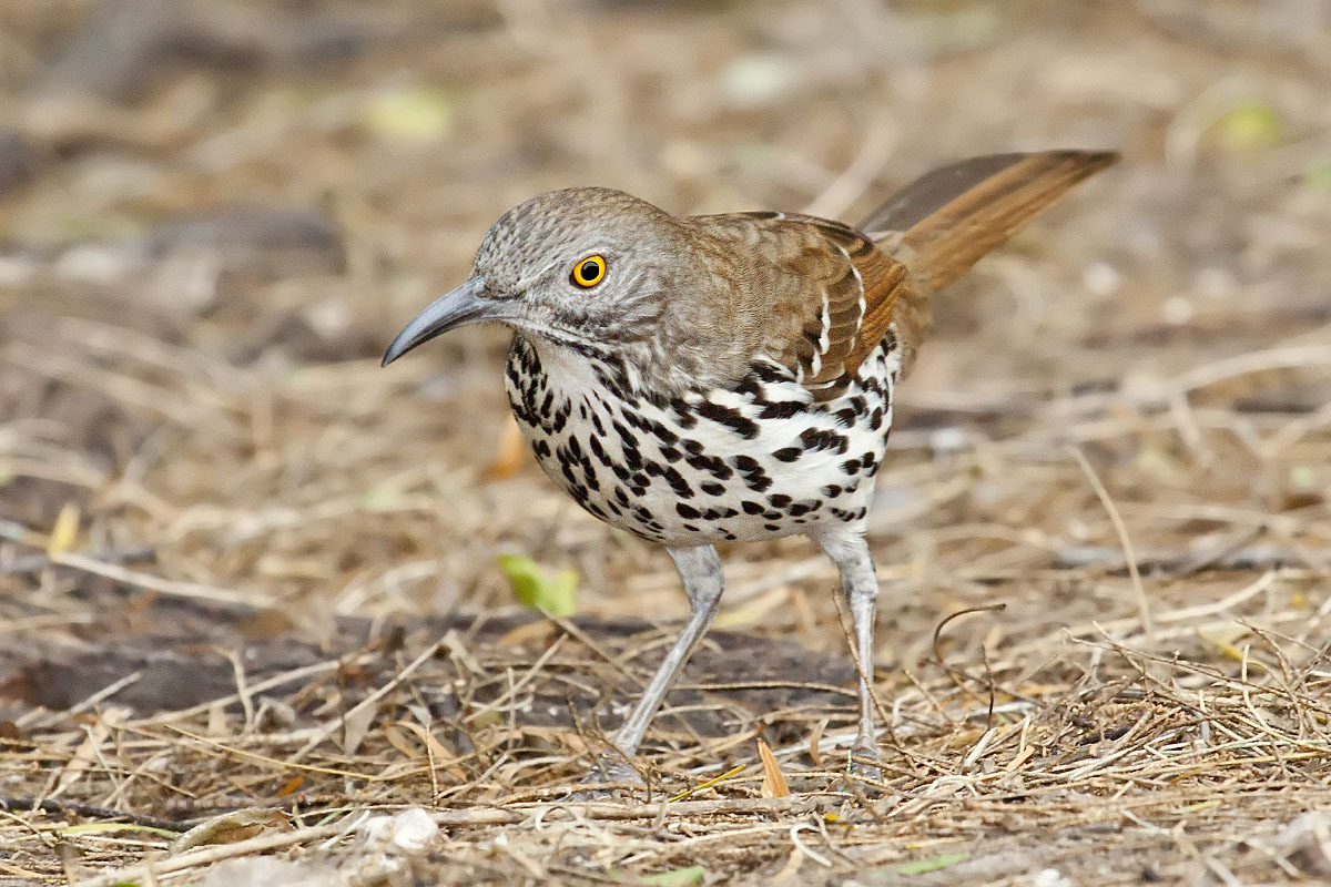 A Long-billed Thrasher at Laguna Atascosa National Wildlife Refuge, Texas, USA.